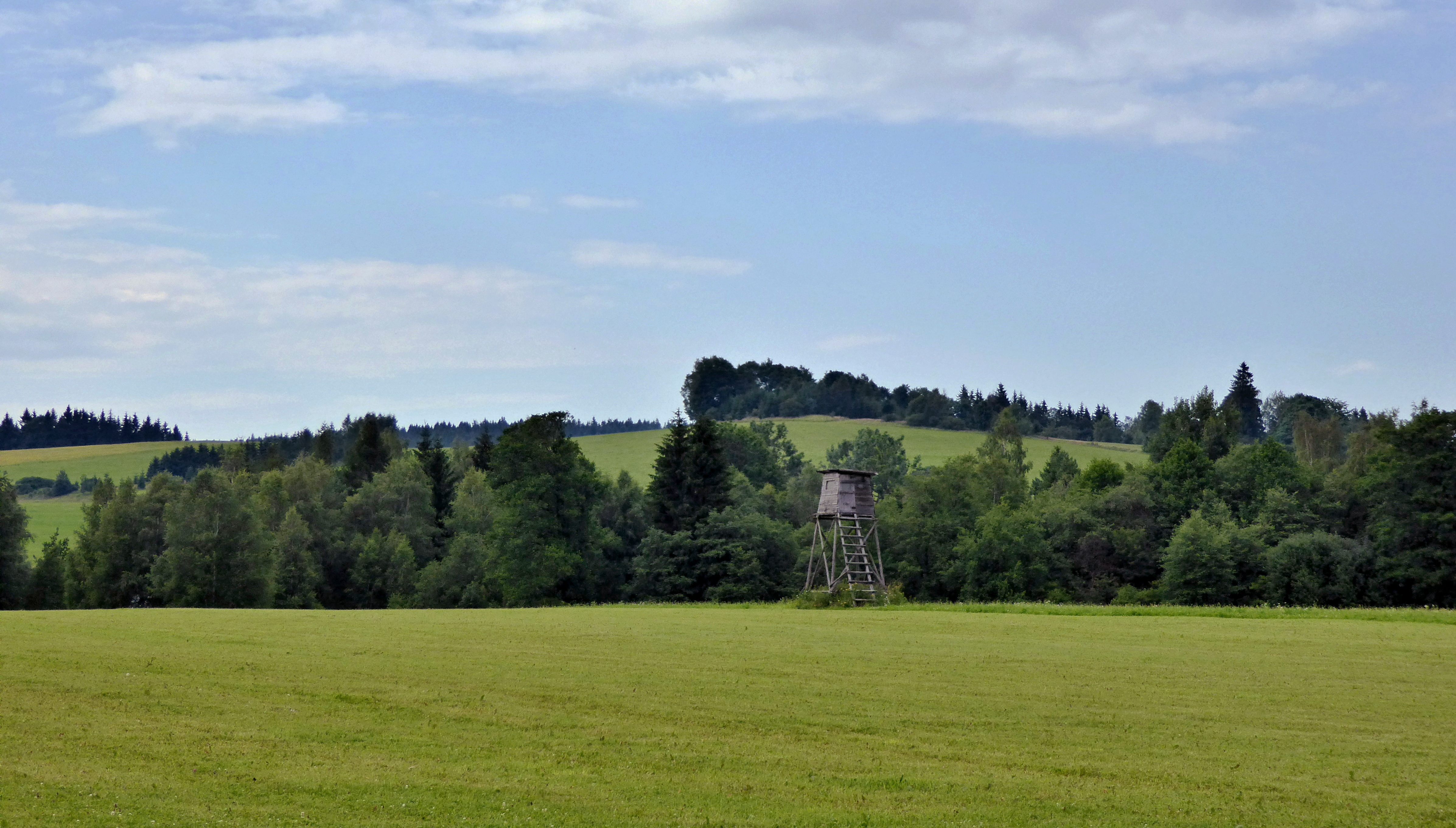 Meadows and trees surround the brook "Kyšperský", above them the peak "Na borovině". The top with the geographical name (oronym) "Na borovině" reaches an altitude of 674 m and is the highest point of the "Milovská" basin, of geomorphological district of the "Žďarské" Hills. It is administratively located on the cadastral territory of the village "Křižánky" in the district "Žďár nad Sázavou" belonging to the "Vysočina" Region. Photo location: Czechia, Vysočina Region, villages Křižánky.